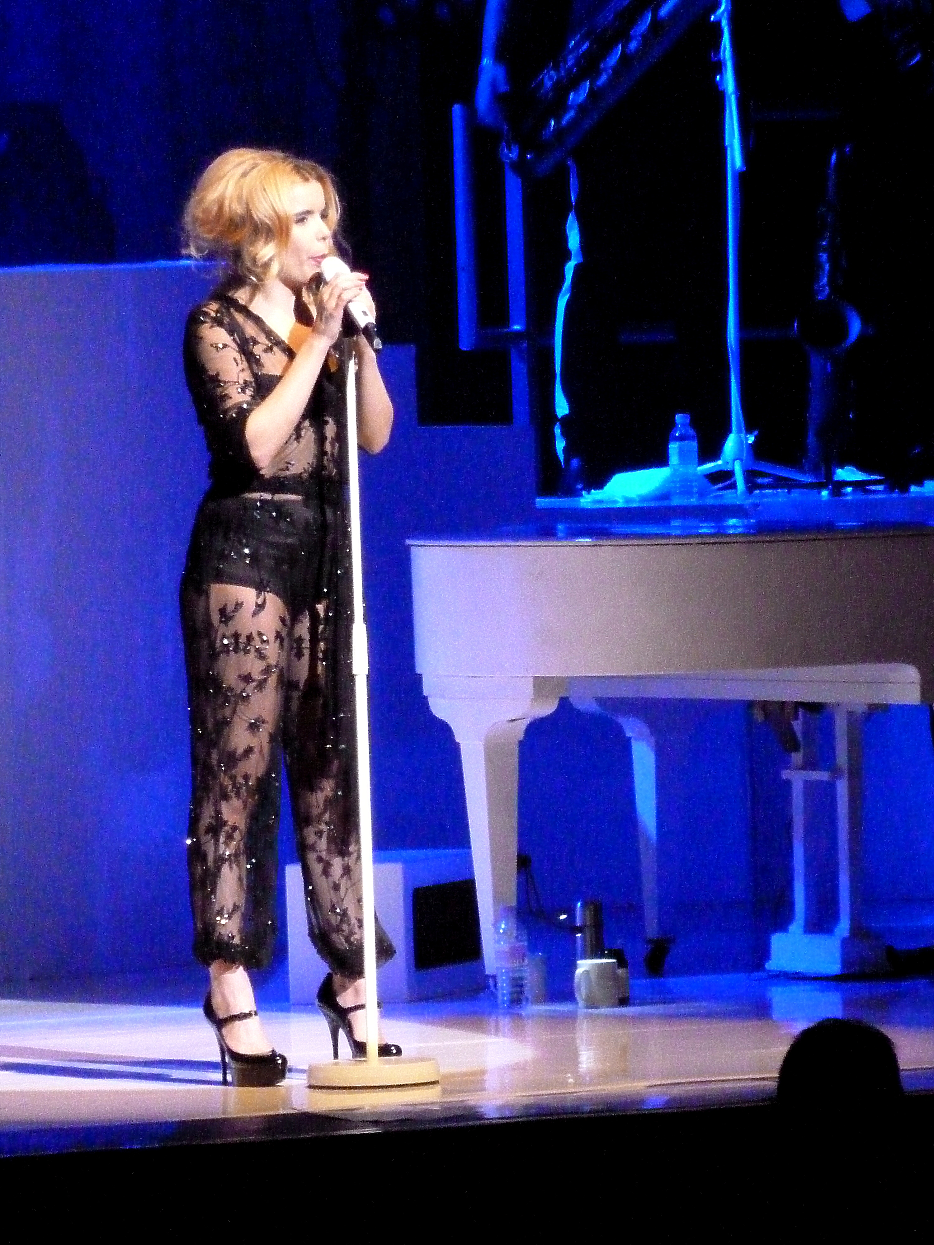 Paloma Faith in concert at The Liverpool Empire Theatre on 4th Nov 2014.